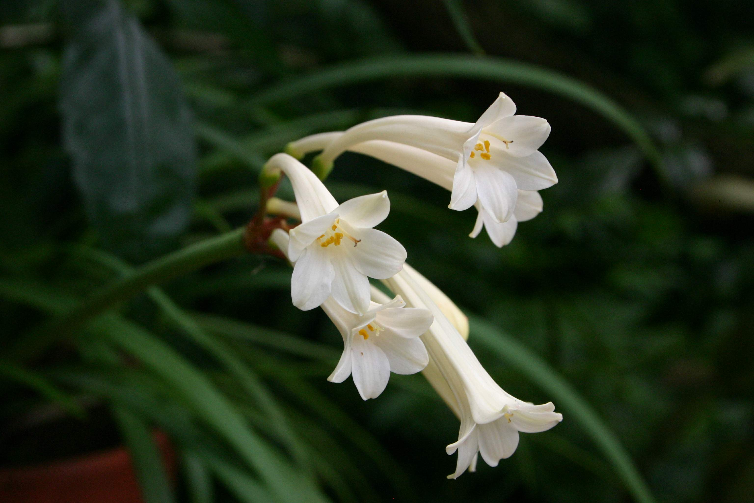 Cyrtanthus mackenii, Johannesburg garden